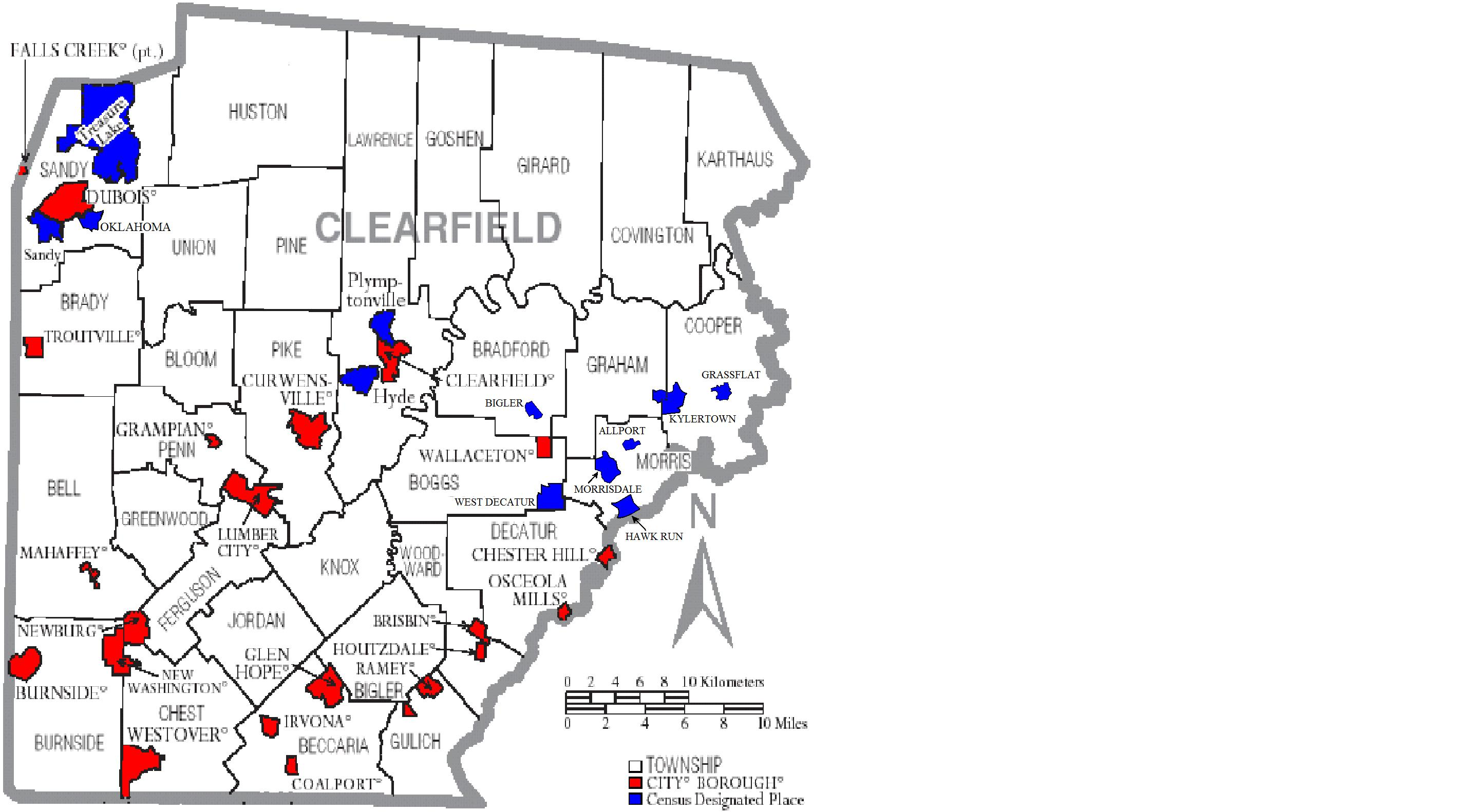 Map of Clearfield County Municipalities